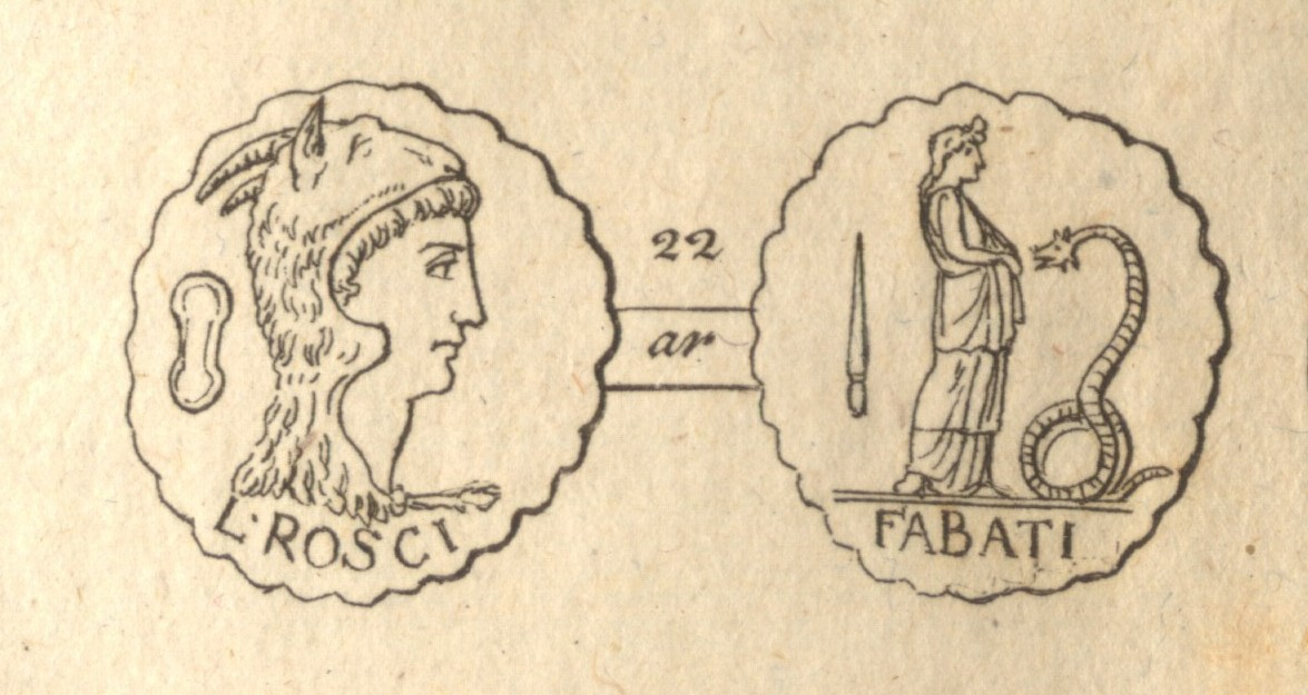 ca. 64 BC - Lucius Roscius Fabatus - Denarius Serratus L•ROSCI• behind the head of Iuno Sospita right, wearing goat's skin, symbol behind Female standing right, feeding serpent erect before her, symbol behind, FABATI in exergue.